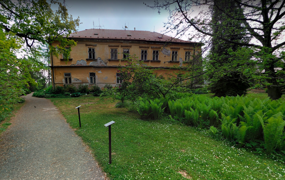 Arboretum